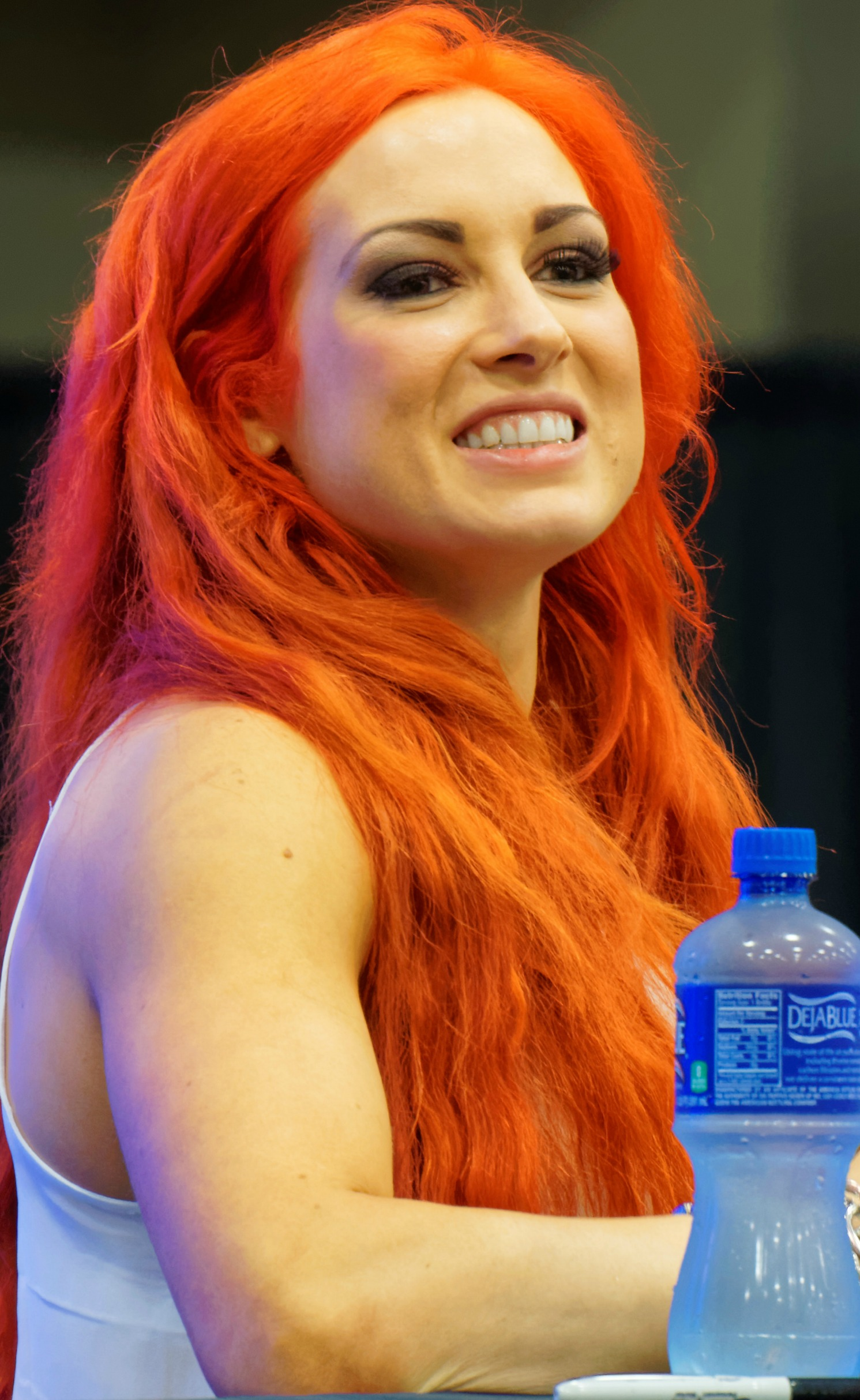 Becky Lynch during the WrestleMania 32 Axxess in March 31, 2016.